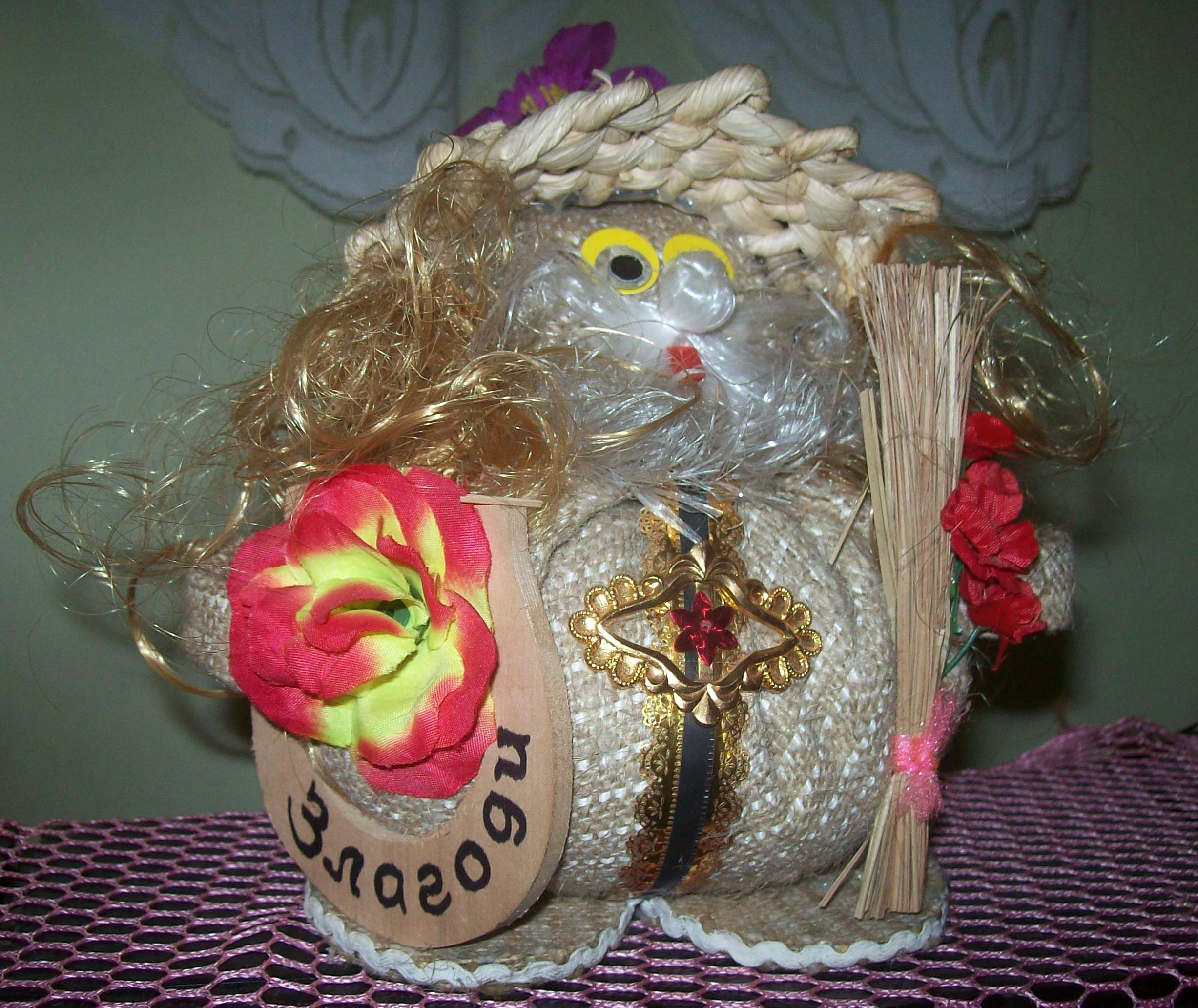 Domowik, домово́й, domovoi, - house spirit from Slavic folclore, as hand-made souvenir from novadays Ukraine